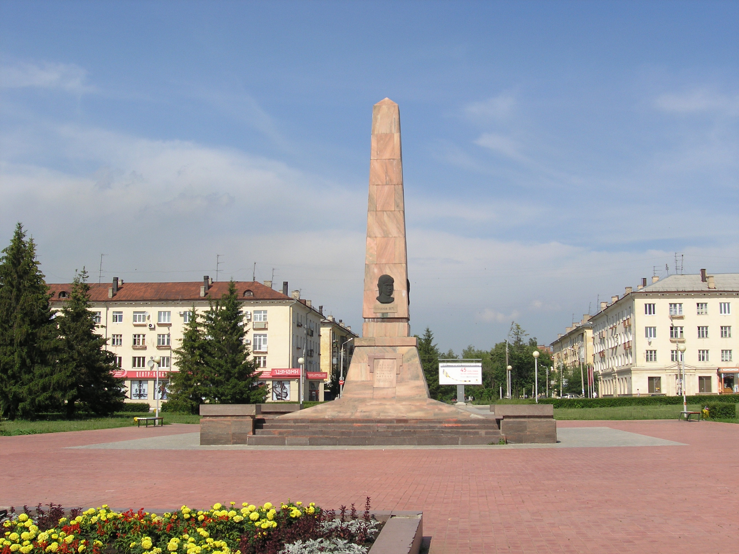 Obelisk of Glory, Togliatti, Russia